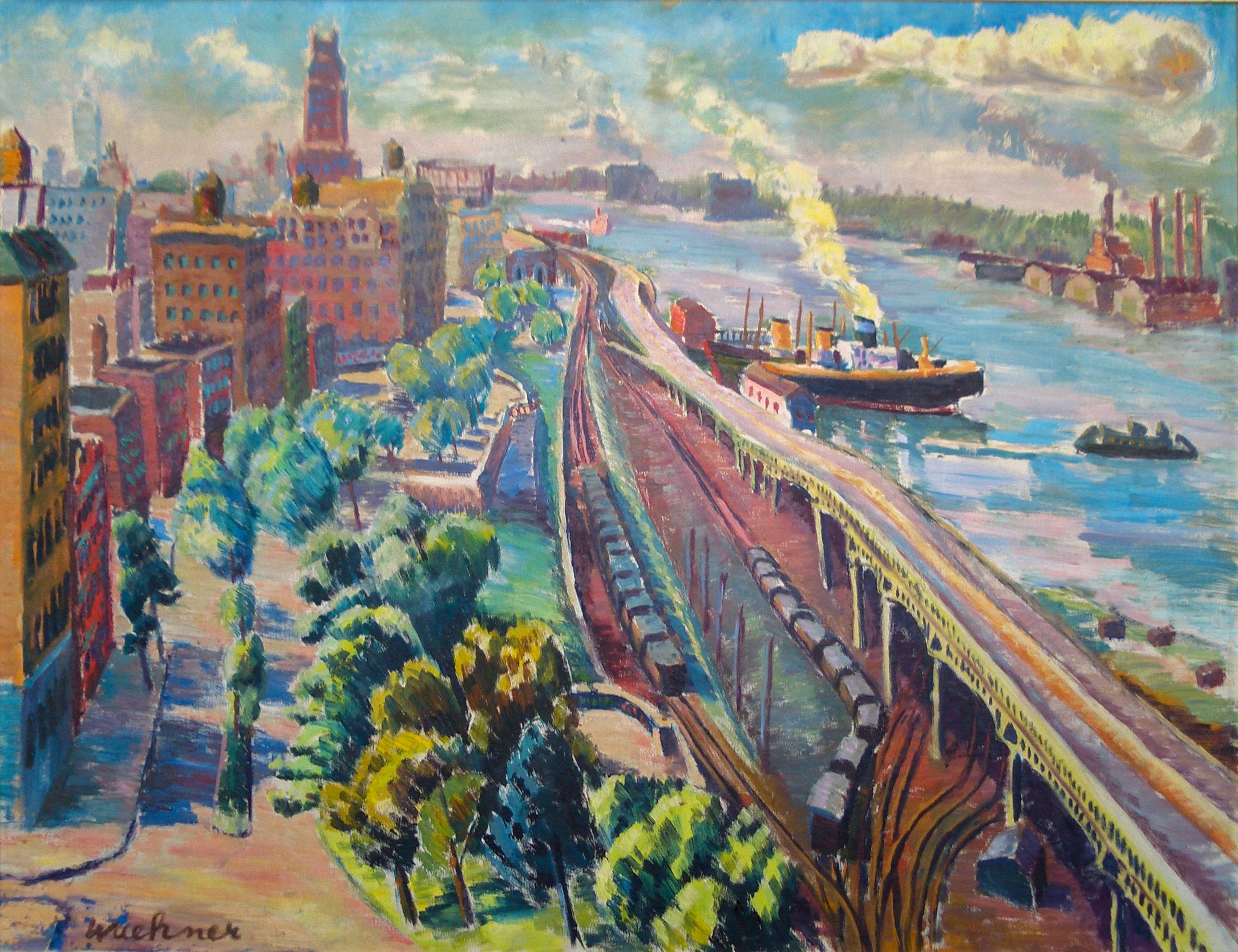 A painting of Riverside Drive and Riverside Park at about 145th Street